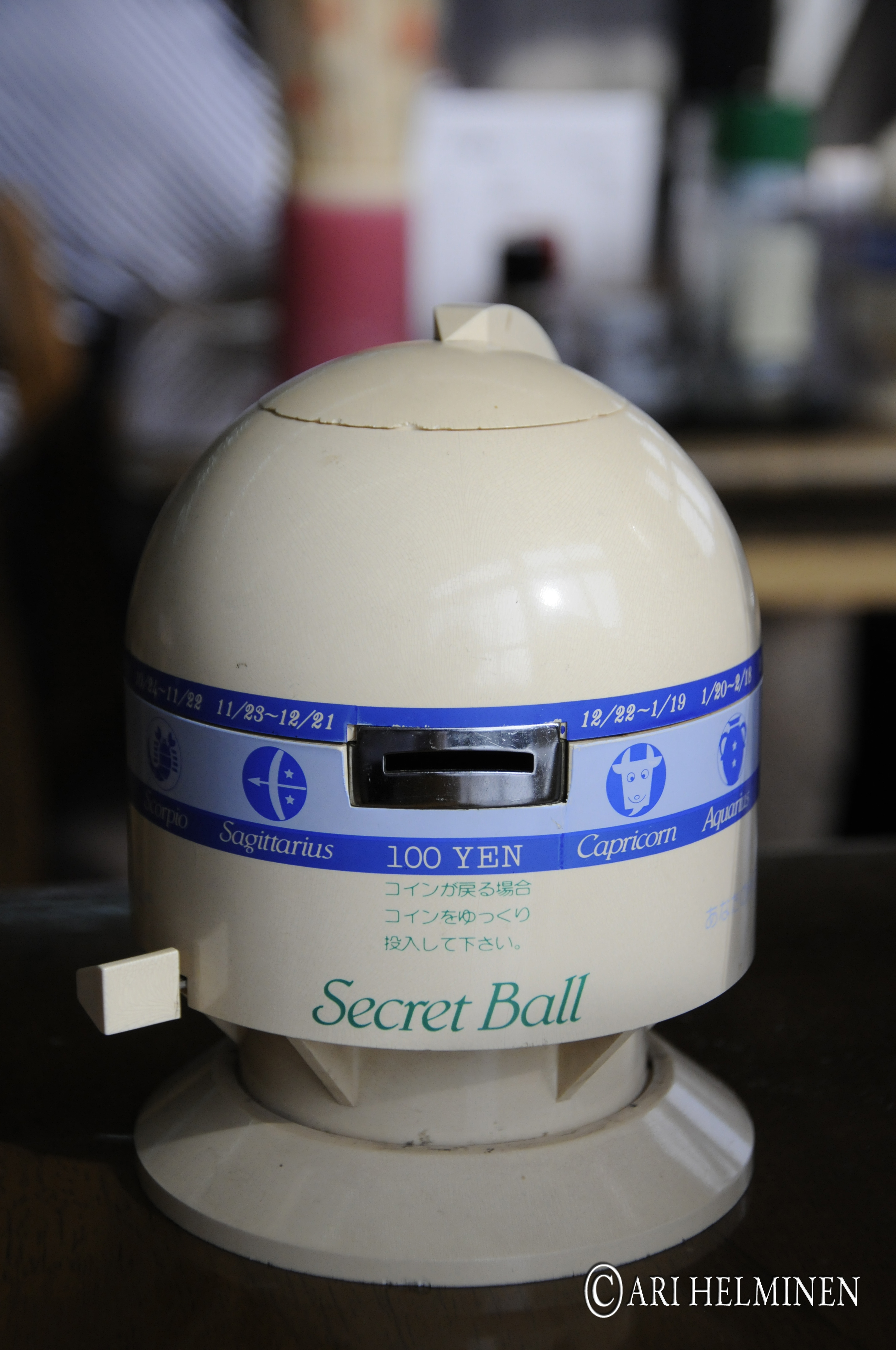 This trip was Breathtaking ! as you can see from the photos ! read about this trip and about my life in Japan at note